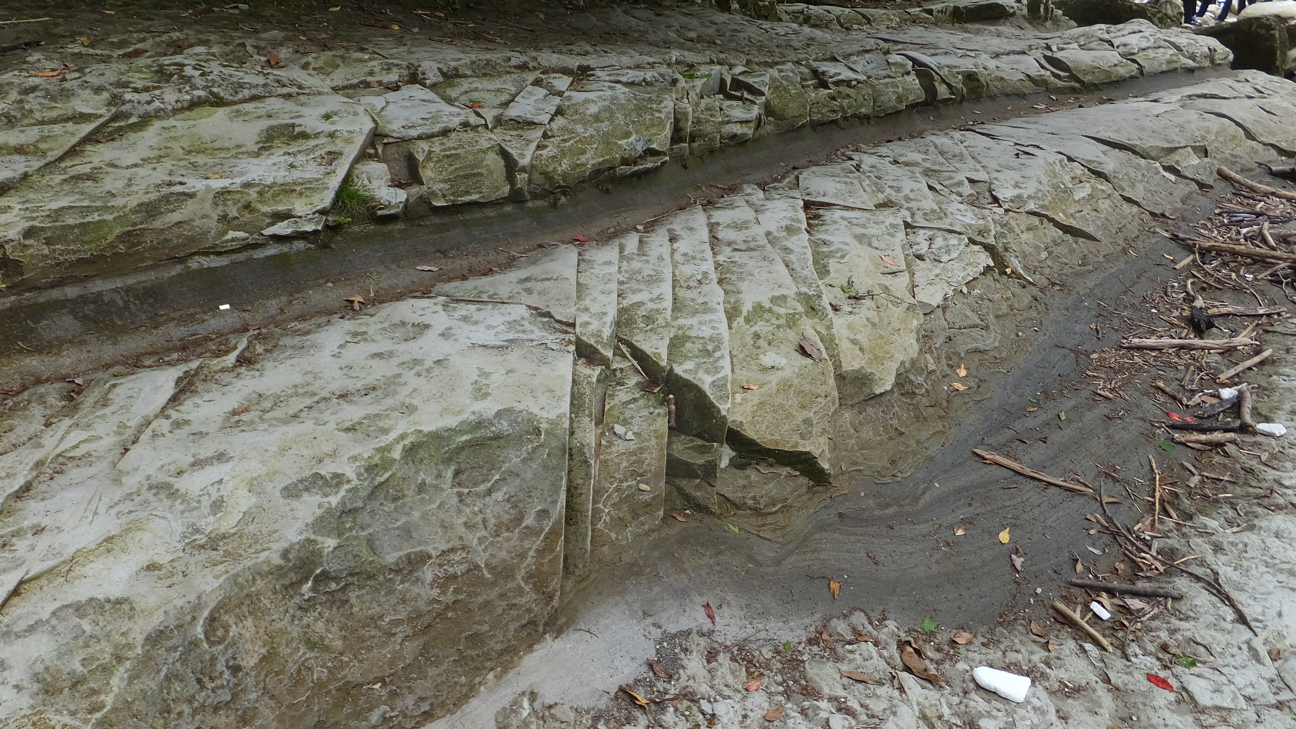 It is a cuesta, sandstone is eroded but mudstone is not. Taken at the lower part of Takataki, located in Otaki Town, Chiba, Japan.